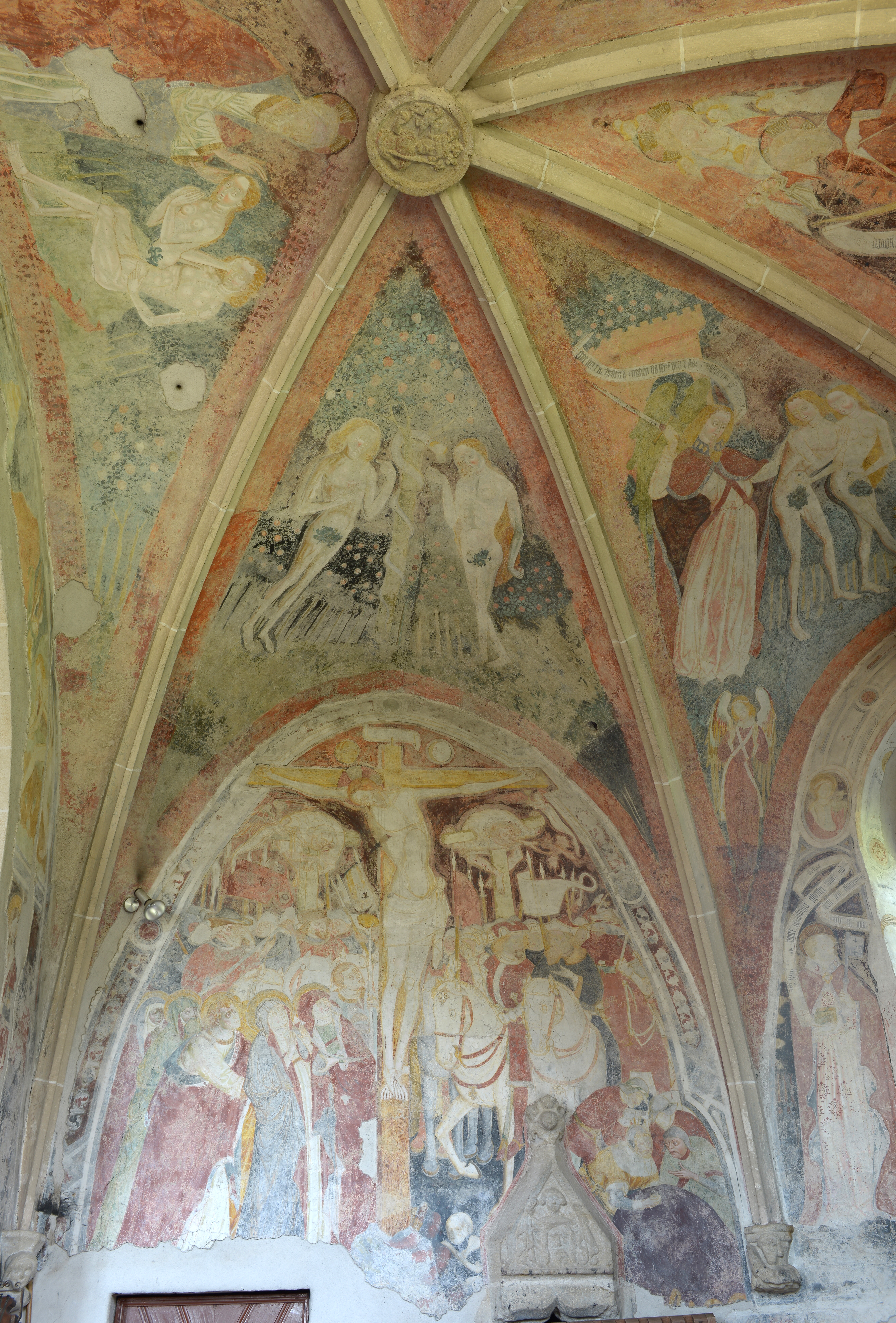 Frescos in the Saint Oswald church in Kastelruth (15th century)